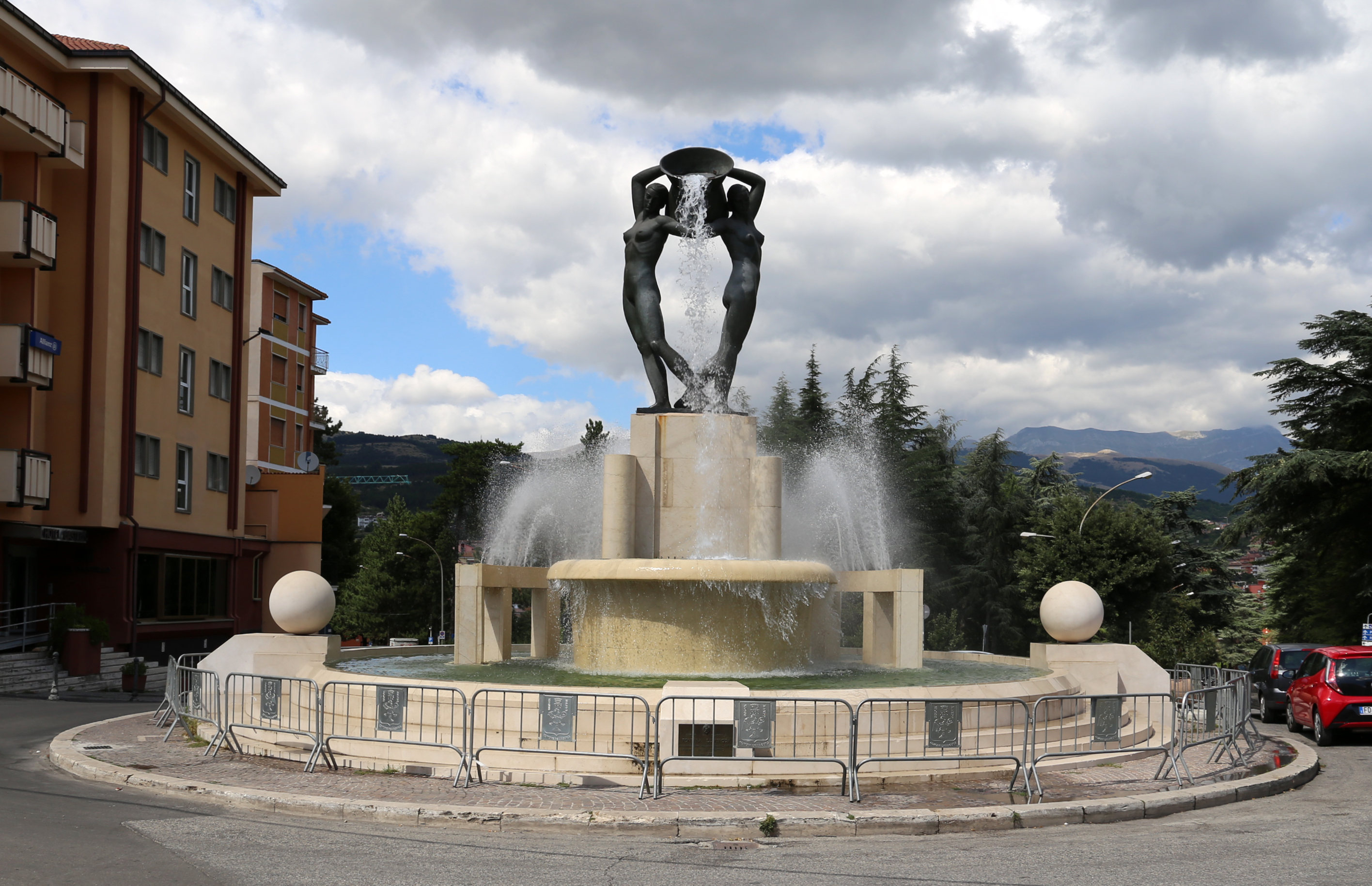 Architecture in L'Aquila